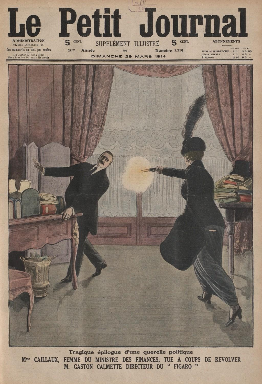 Cover from the French illustrated Weekly, Le Petit Journal (29 March 1914), depicting the assassination of Gaston Calmette by Henriette Caillaux.